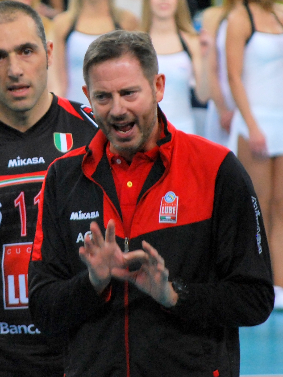 Alberto Giuliani, volleyball coach from Italy